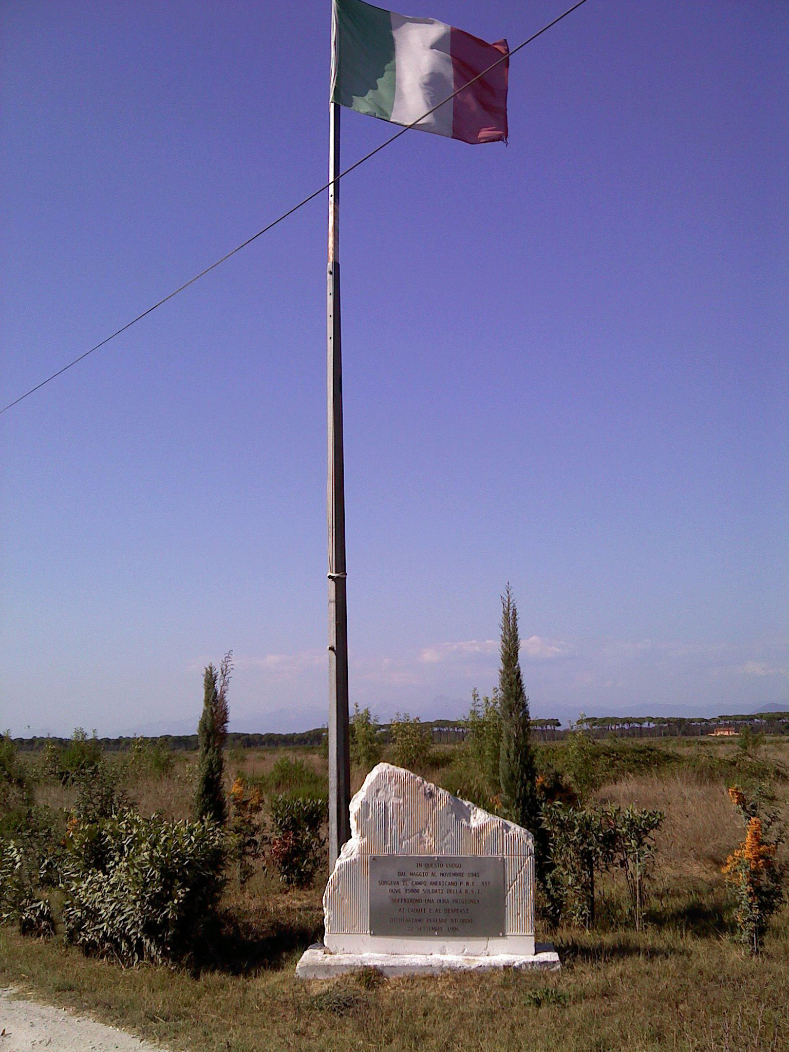 Plaque erected on the spot of the former concentration camp at Coltano (Pisa) on September 22 1996, in memory of the fascists belonging to the the Repubblica Sociale Italiana who fell prisoners of the Allied troops (so the inscriptions says...).